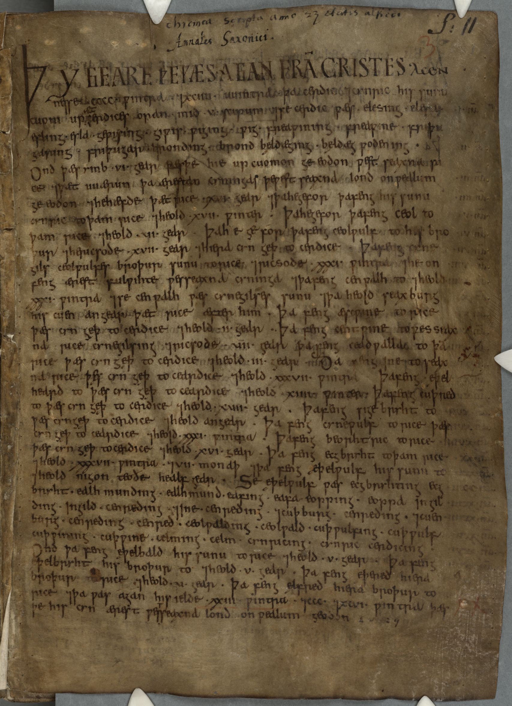 A page from the first section of the Parker manuscript of the Anglo-Saxon Chronicle, showing the genealogical preface.